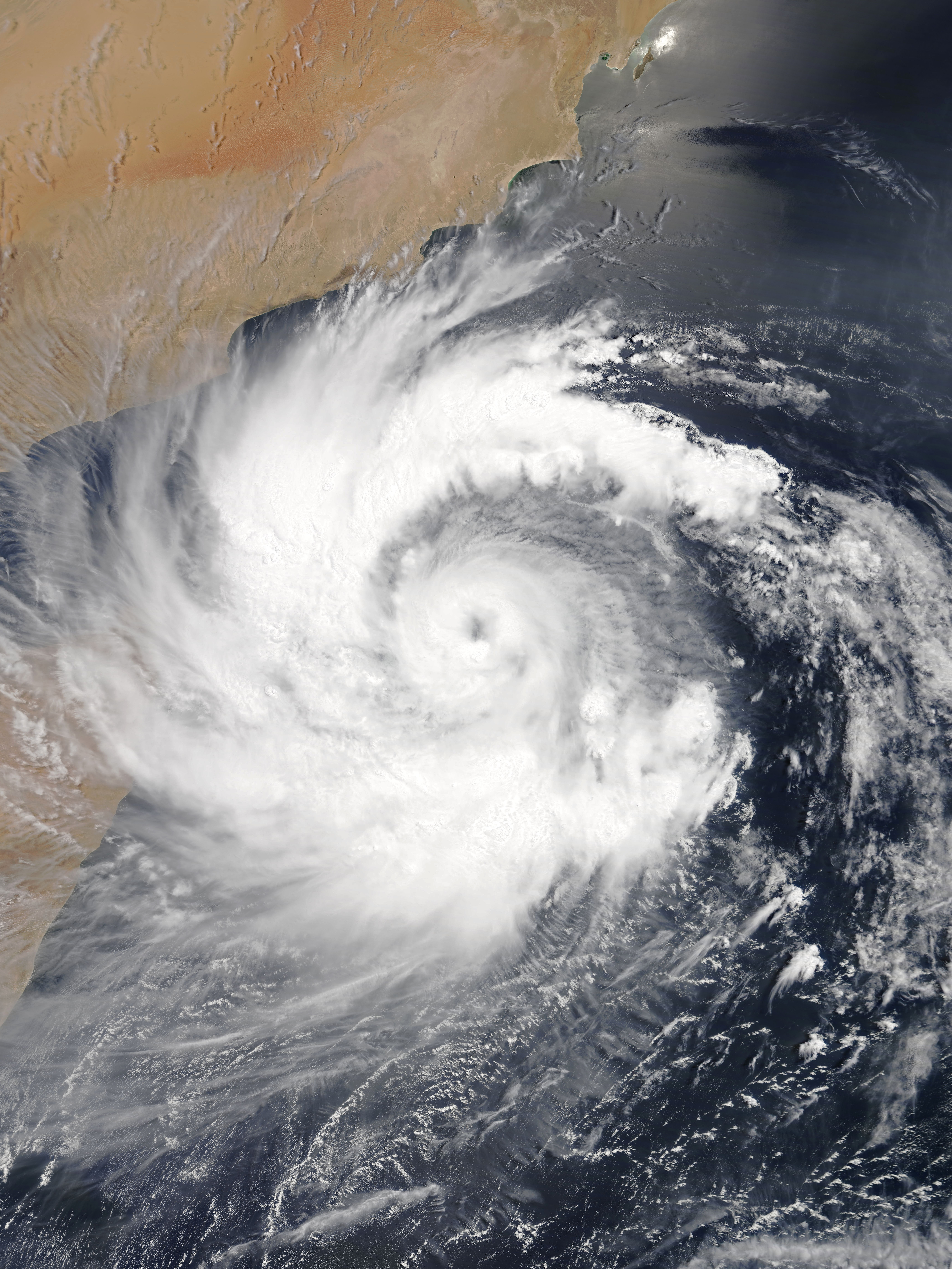 Very Severe Cyclonic Storm Mekunu rapidly intensifying southeast of Socotra on 23 May 2018.